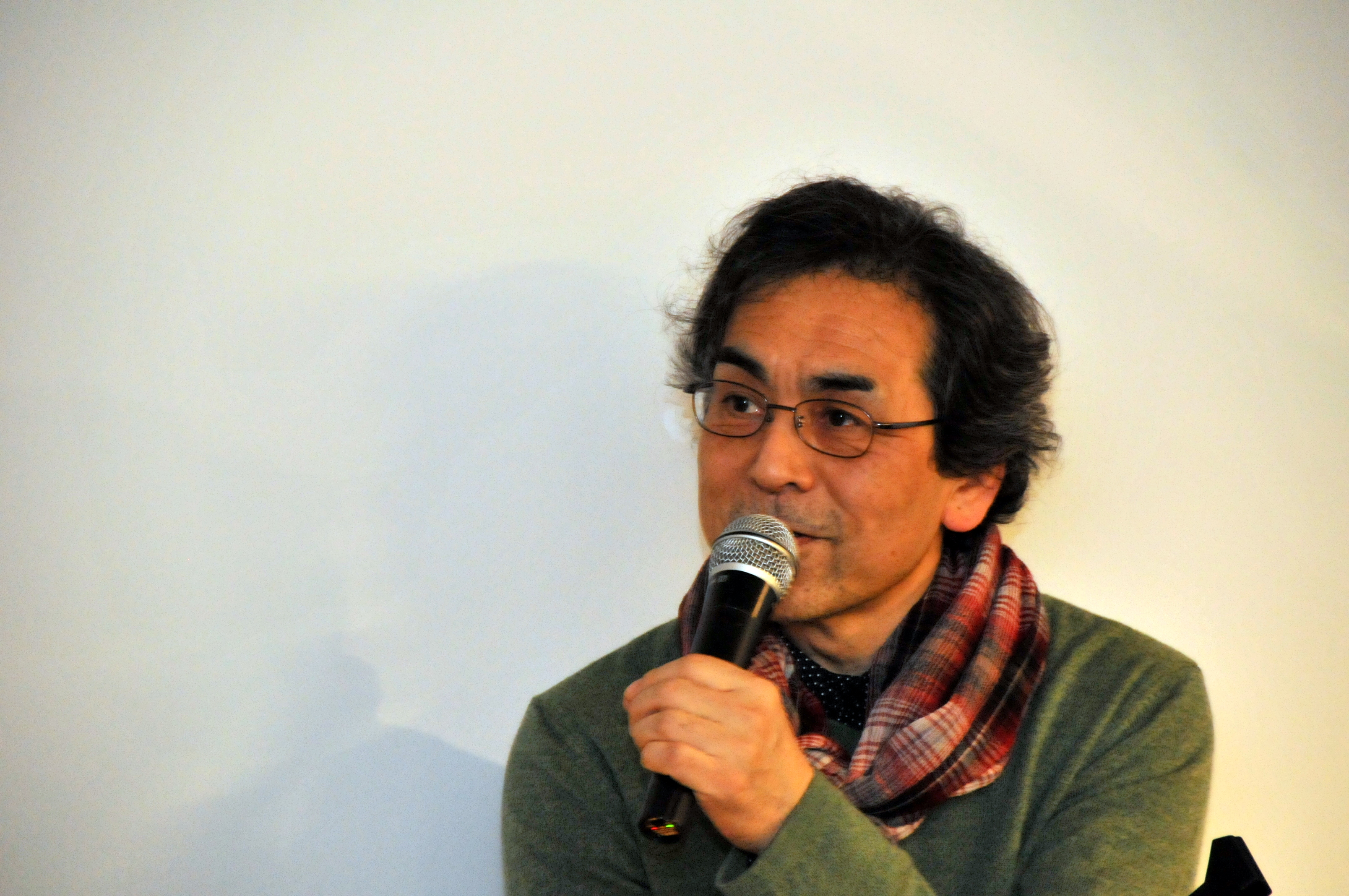 Kenichi Makimura is a Japanese record producer.